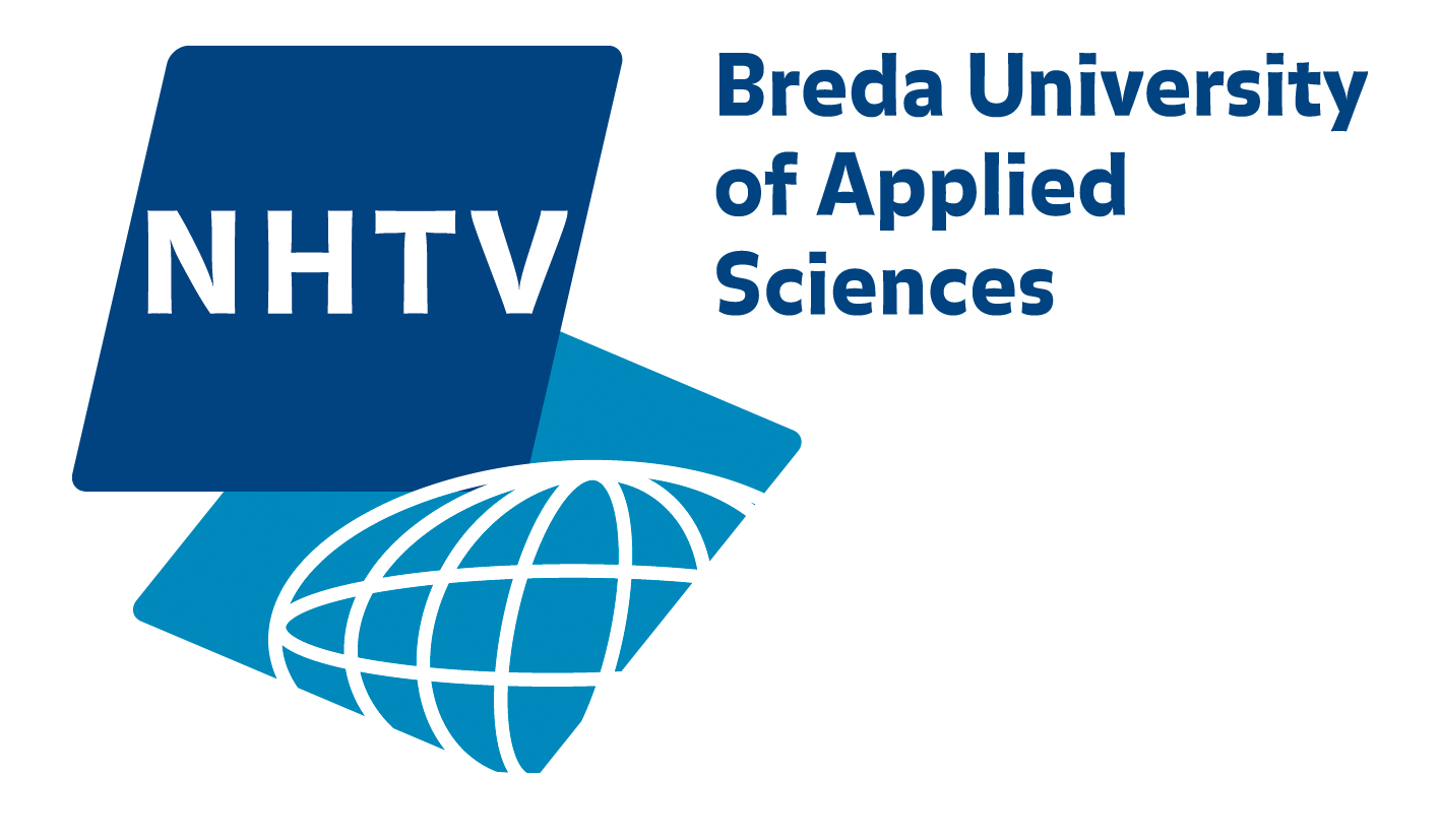 NHTV布雷达应用技术大学官方logo